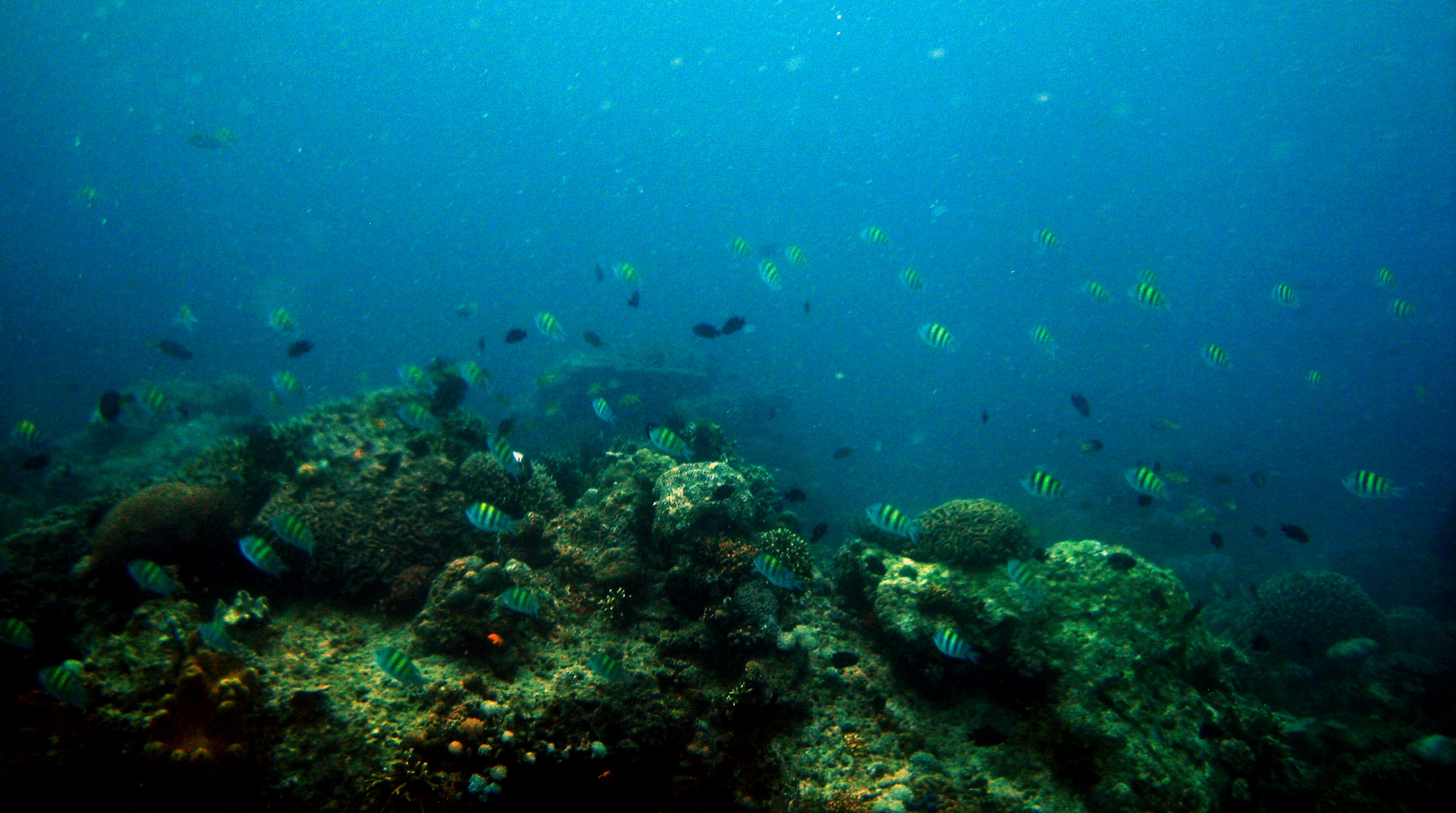 Underwater view near to Dive Solana, Mabini Batangas